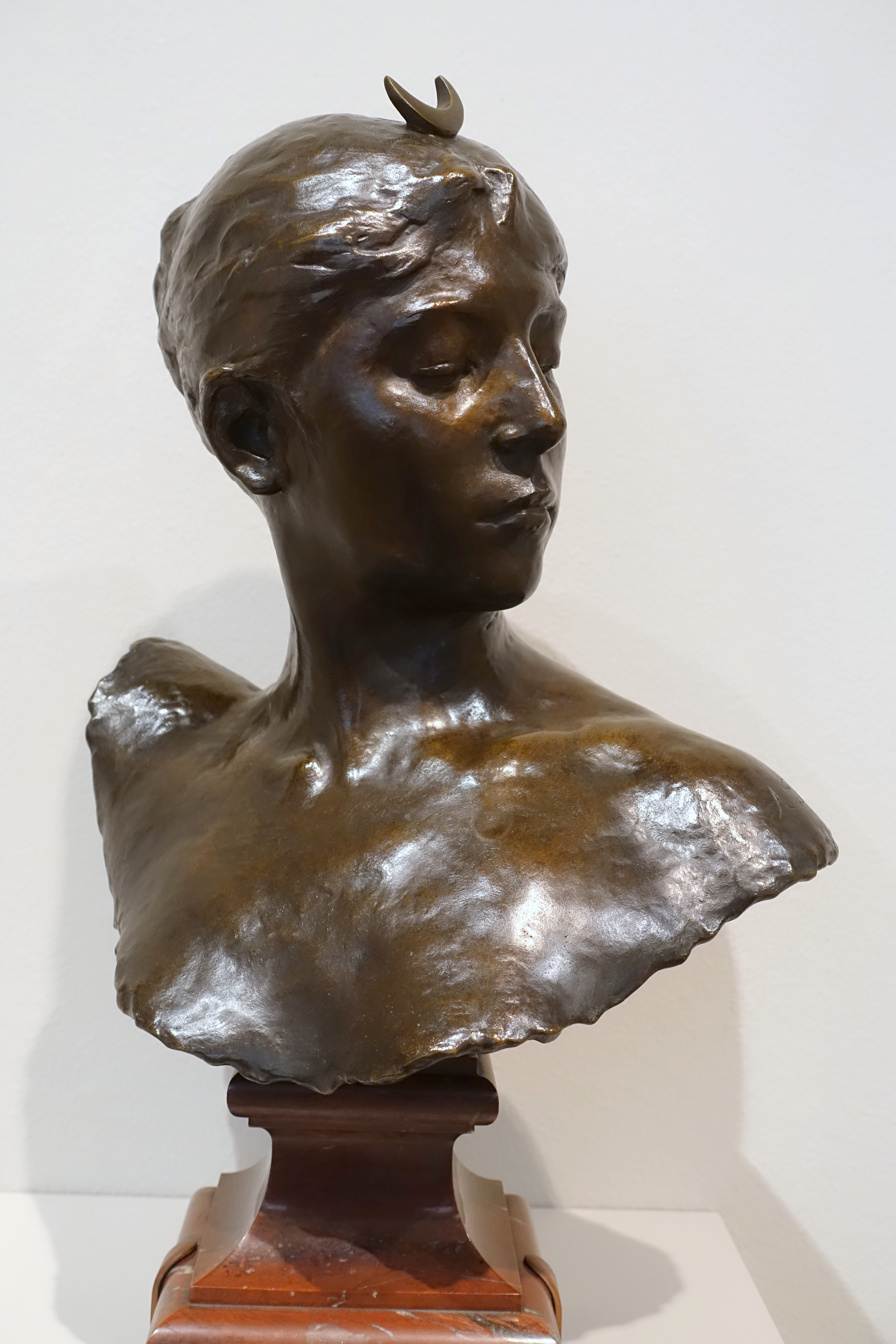 Exhibit in the Dallas Museum of Art, Dallas, Texas, USA.